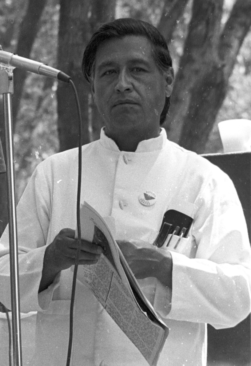 César Chávez — speaking at the Delano UFW−United Farm Workers rally in Delano, California, June 1972.